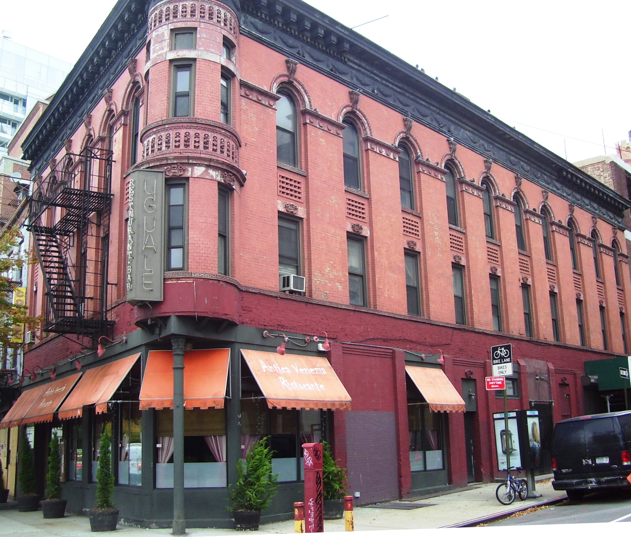 396-397 West Street, on the corner of West 10th Street, in the West Village neighborhood of Manhattan, New York City, was built 1903-1904 in the neo-Renaissancew style as a hotel, and was designed by Charles Stegmayer. The building is located within the Weehawken Street Historic District. (Source: "NYCLPC Weehawken Street Historic District Designation Report")